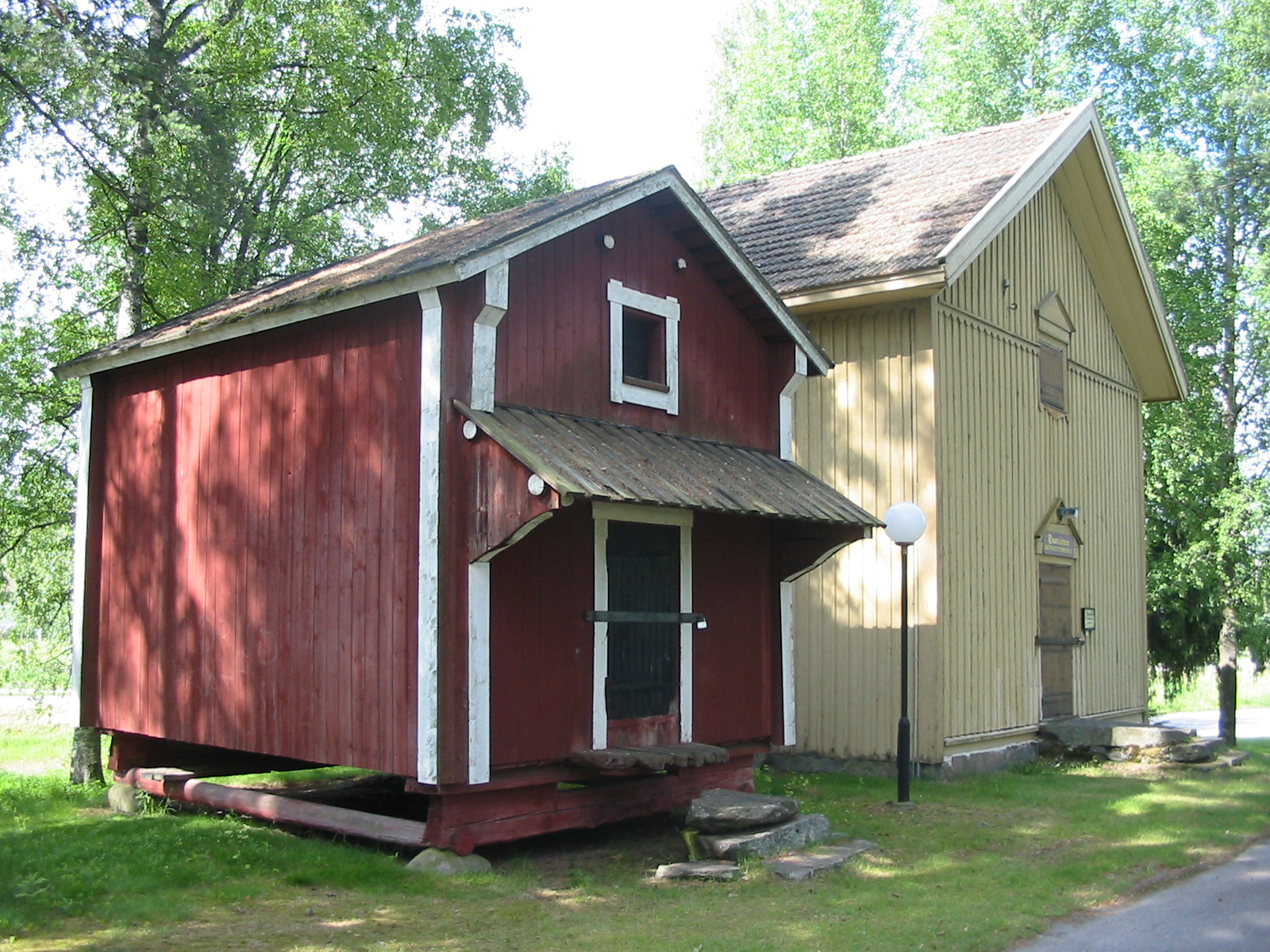 Granaries by the church of Paattinen, Turku, Finland.